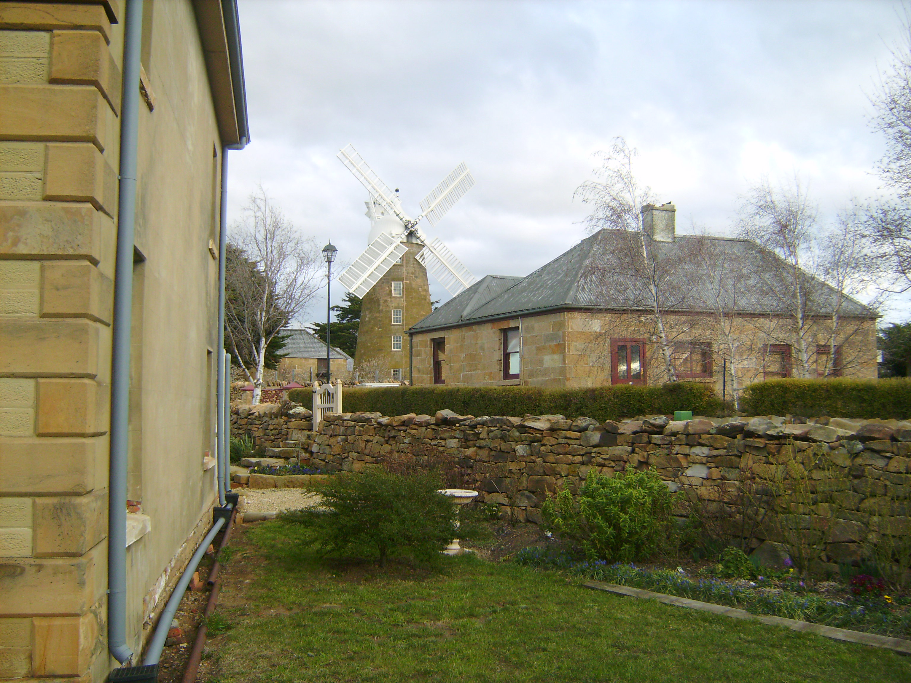 Callington Mill in Oatlands viewed from High Street shortly after sails were fitted